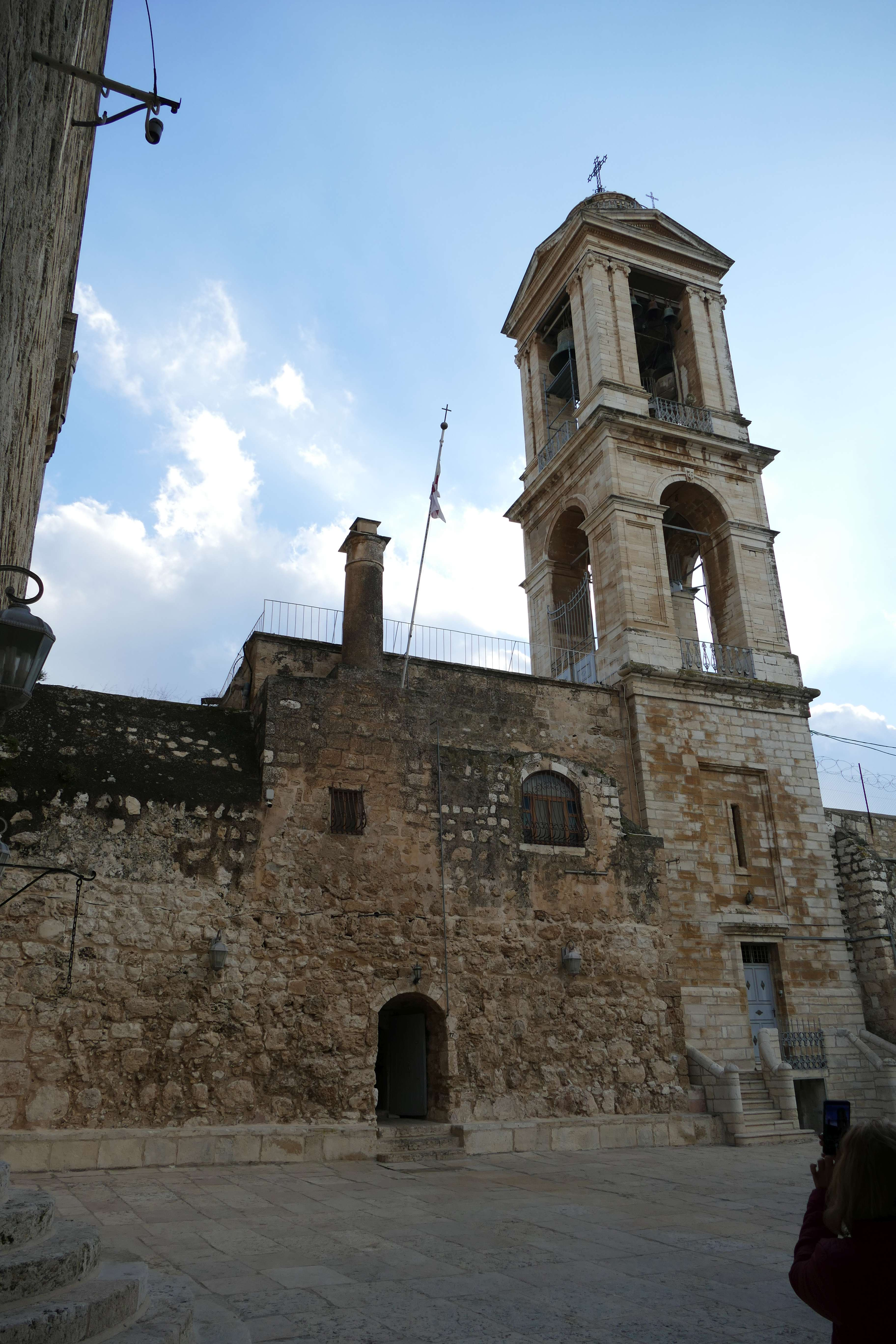 Church of the Nativity, Bethlehem, West Bank.